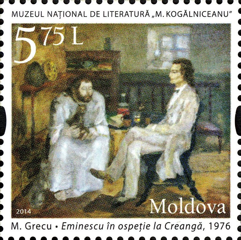 Stamps of Moldova, 2014